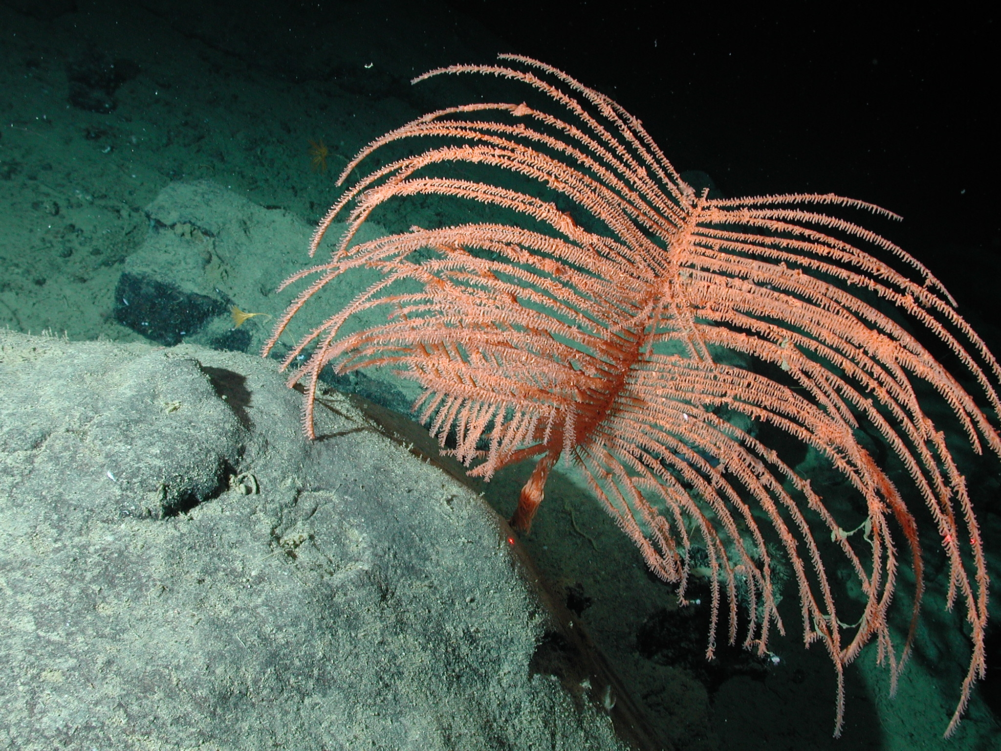 Feather pen-like coral (Bathypathes sp.) at 2467 meters water depth. California, Davidson Seamount.